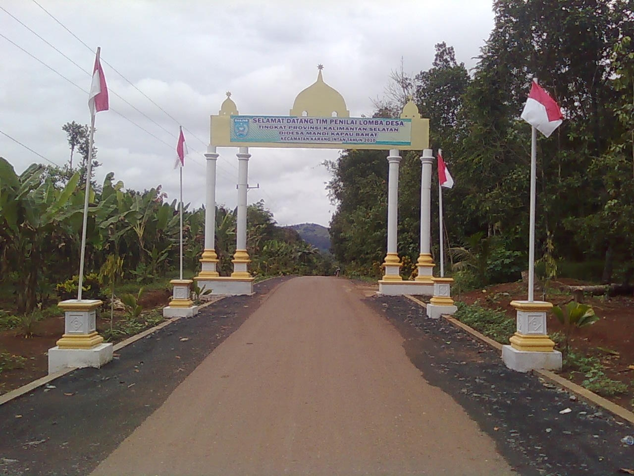 Gate at Mandikapau Barat Village, Banjar Regency, South Kalimantan, Indonesia